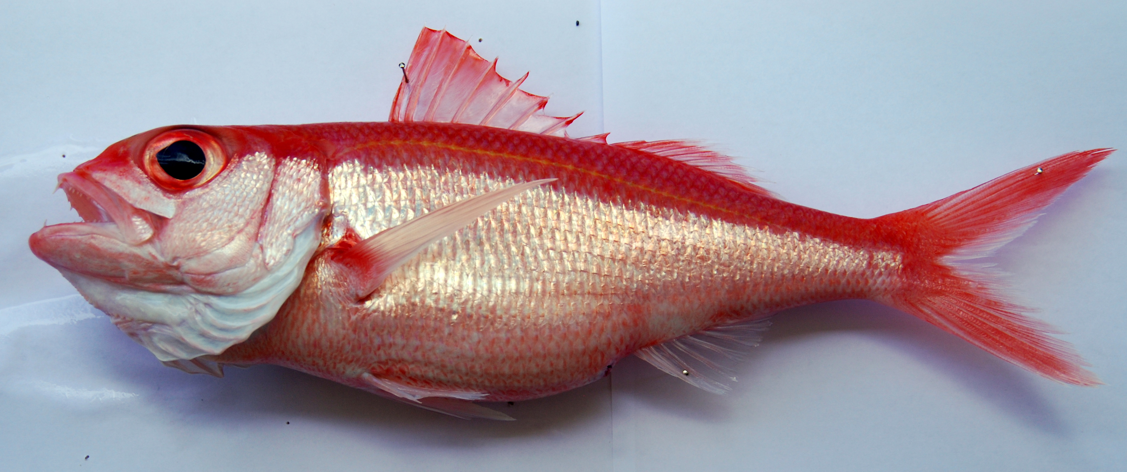 Etelis carbunculus (Lutjanidae). MNHN number JNC2427. Locality: off Nouméa, New Caledonia. Coordinates: 22°21'S, 166°14'E. Date: 28-Nov-2007 Fork Length: 295 mm, Weight: 461 g (this is a small specimen). Species identification has been confirmed by Jack Randall (from photograph).